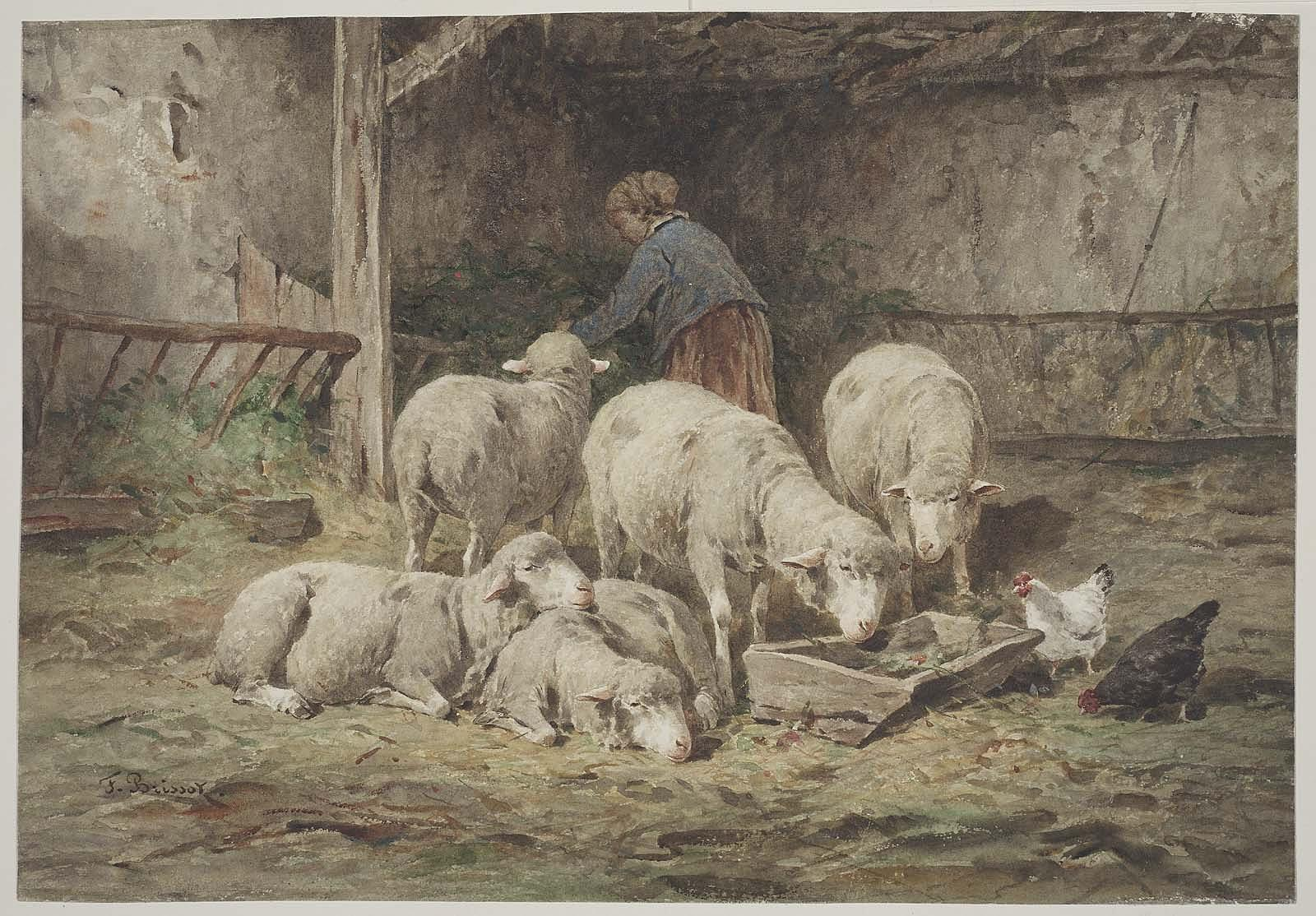 Feeding Sheep Félix Saturnin Brissot de Warville (French, 1818–1892) undated Museum of Fine Arts, Boston Medium/Technique: Watercolor Dimensions: Sheet: 25.1 x 36 cm (9 7/8 x 14 3/16 in.) Credit Line: Bequest of Mrs. Arthur Croft—The Gardner Brewer Collection Accession Number: 01.6226 NOT ON VIEW Collections:Europe, Prints and Drawings